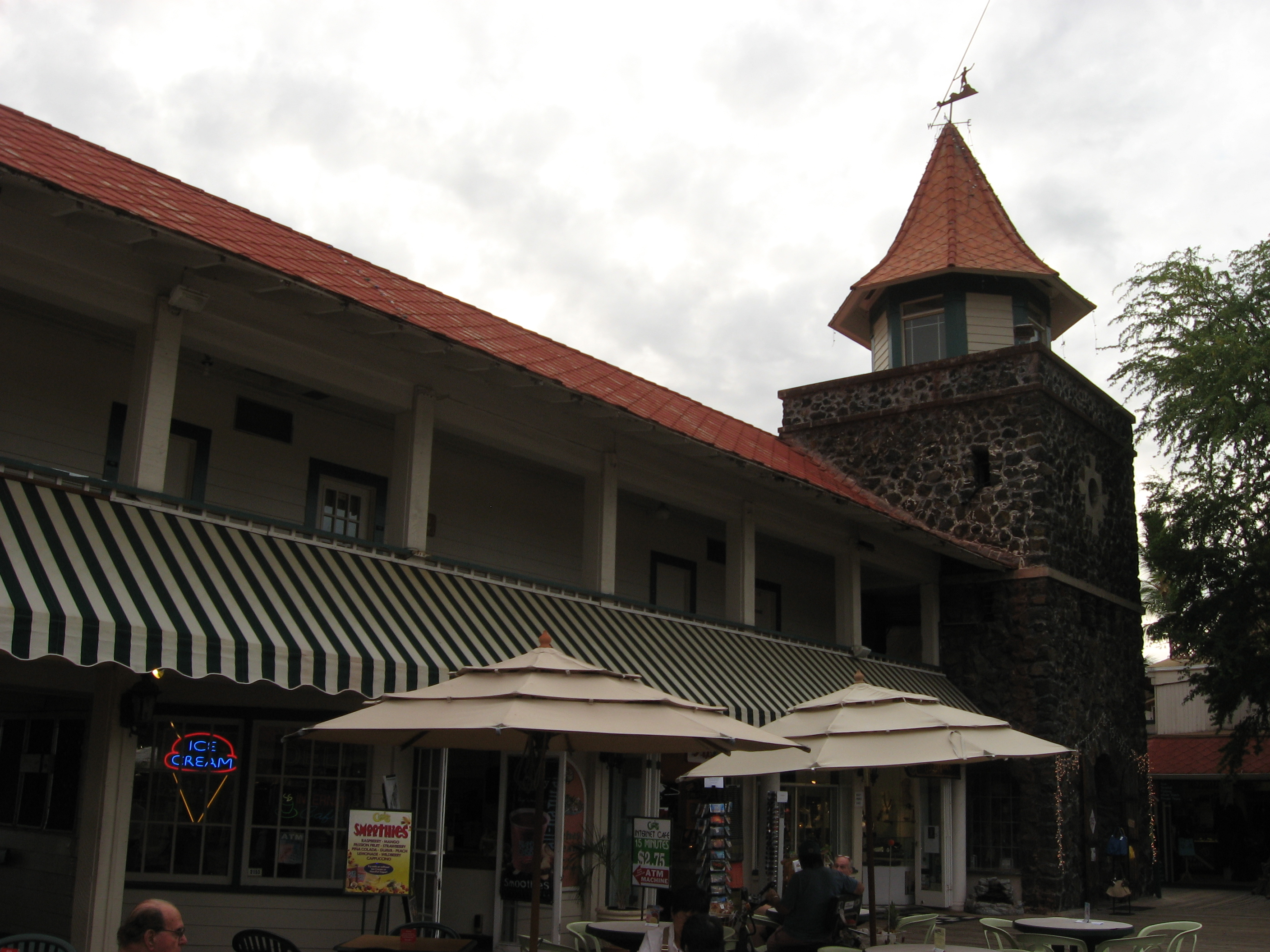 Ali'i Drive is the main street of Kailua-Kona, Island of Hawaii, USA. Ali'i Drive is the main street of Kailua-Kona on the western side of Island of Hawaii, USA. It is a coastal road, which faces the Bay of Kailua, where many historical sites, resort hotels, souvenir shops, markets and churches are located. Ali'i Drive starts from the crossing with Kuakini Highway, just north of Kailua Pier, and ends at Keauhou Shopping Center in Keauhou, with the northern part of the drive busiest. At Kailua Pier, the passengers from the luxurious crouise ships come ashore by launches. Along the road are souvenir shops for these tourists as well as people who take a walk, Farmers' Market and many large and small resort hotels. The historical sites are: Ahuena Heiau where King Kamehameha spent his retired life, the Hulihee Palace which was used by the royal family of the Hawaiian Kingdom, Mokuaikaua Church which was the first church in Hawaii, and St. Michael's Catholic Church.